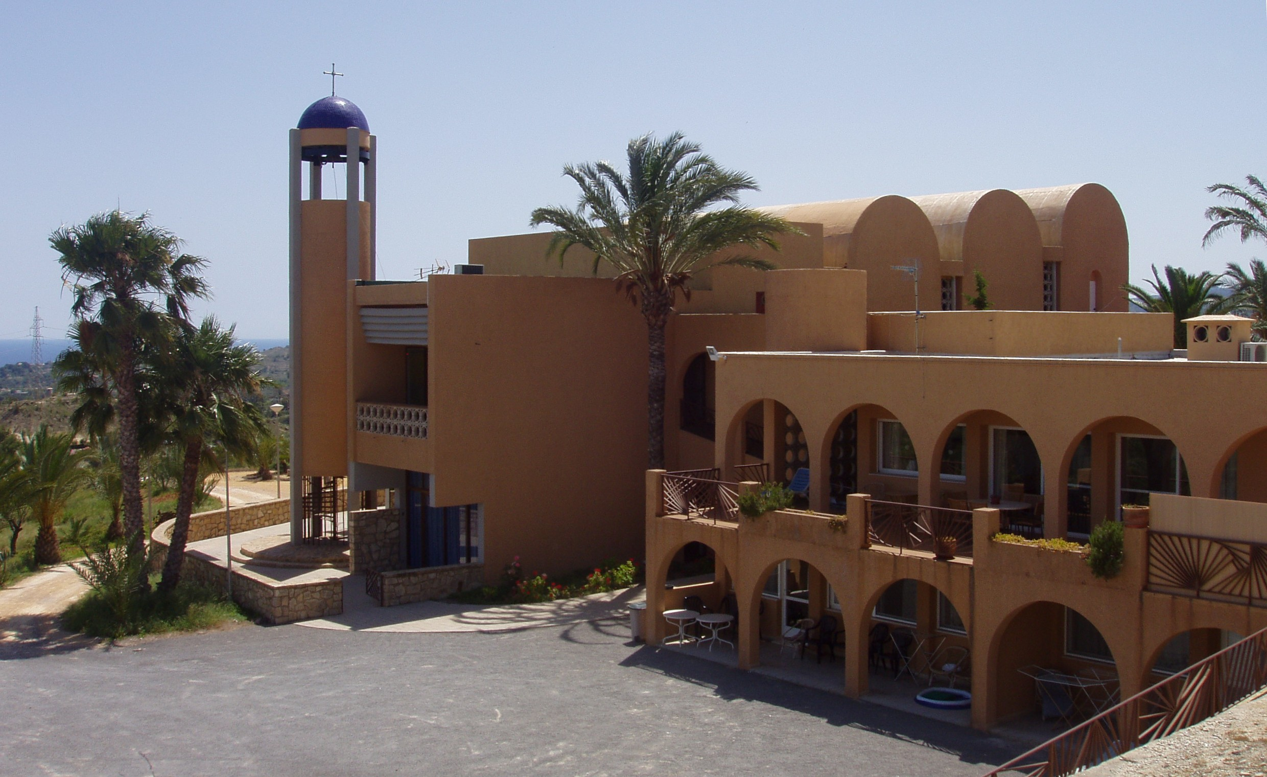 The norwegian church in Villajoyosa, Spain